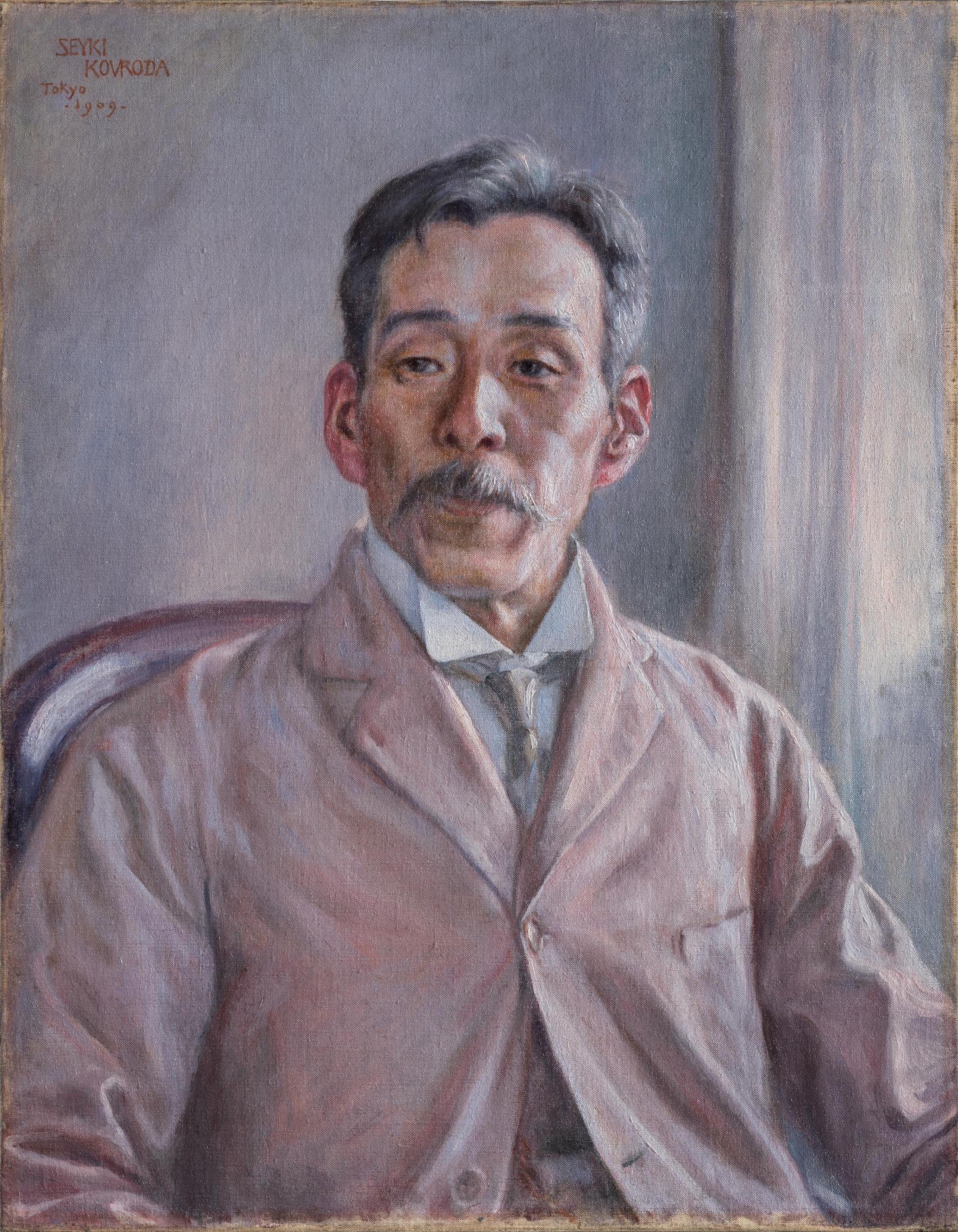 Doctor Terao Hisashi, by Kuroda Seiki, Kuroda Kinenkan, Tokyo National Museum, Japan